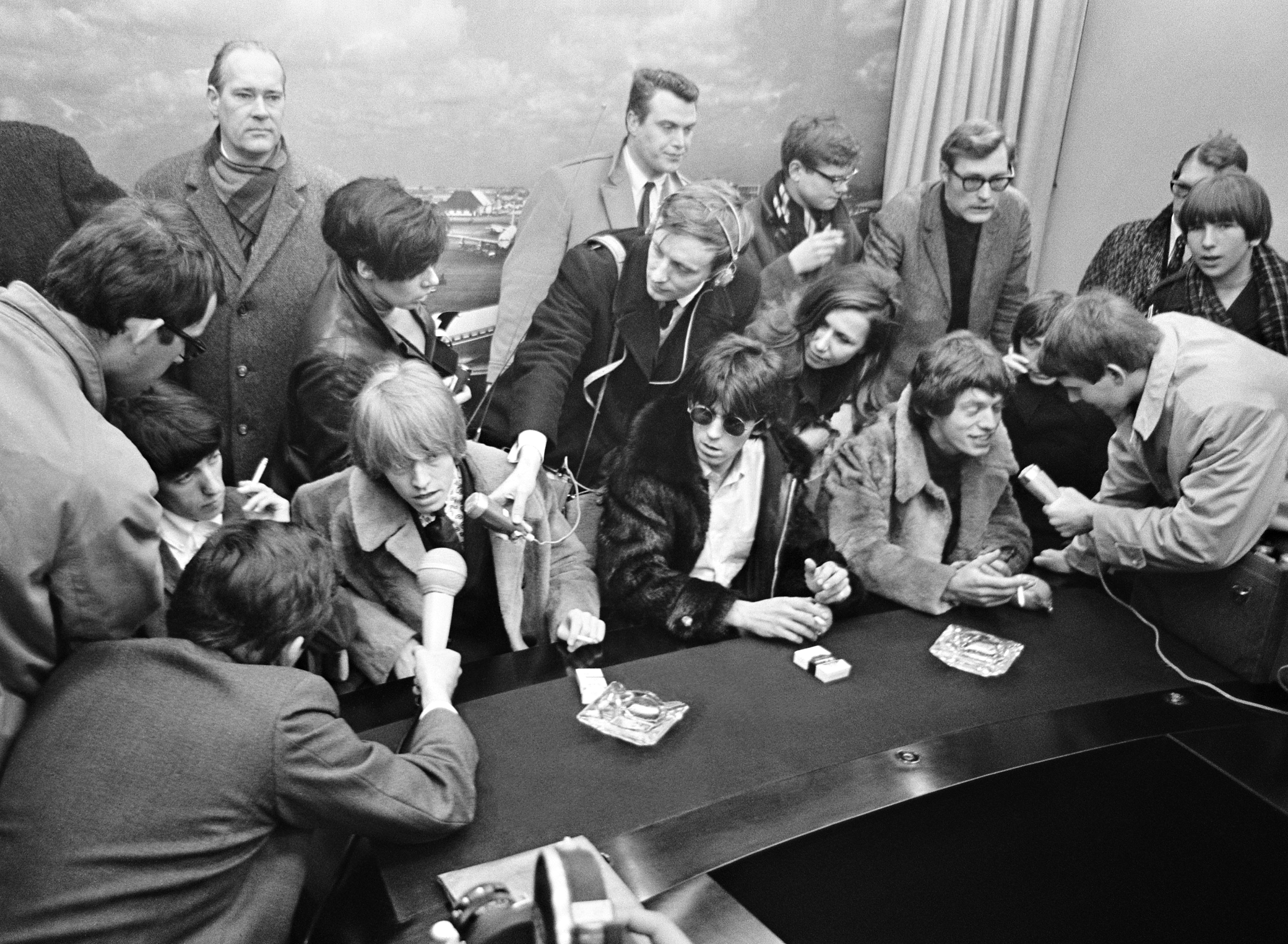 The Rolling Stones in the pressroom of Amsterdam Airport Schiphol, surrounded by interviewing journalists, on March 26, 1966. This is a cropped and retouched (removed scratches and spots, adjusted colors) version of the original image from the Nationaal Archief.